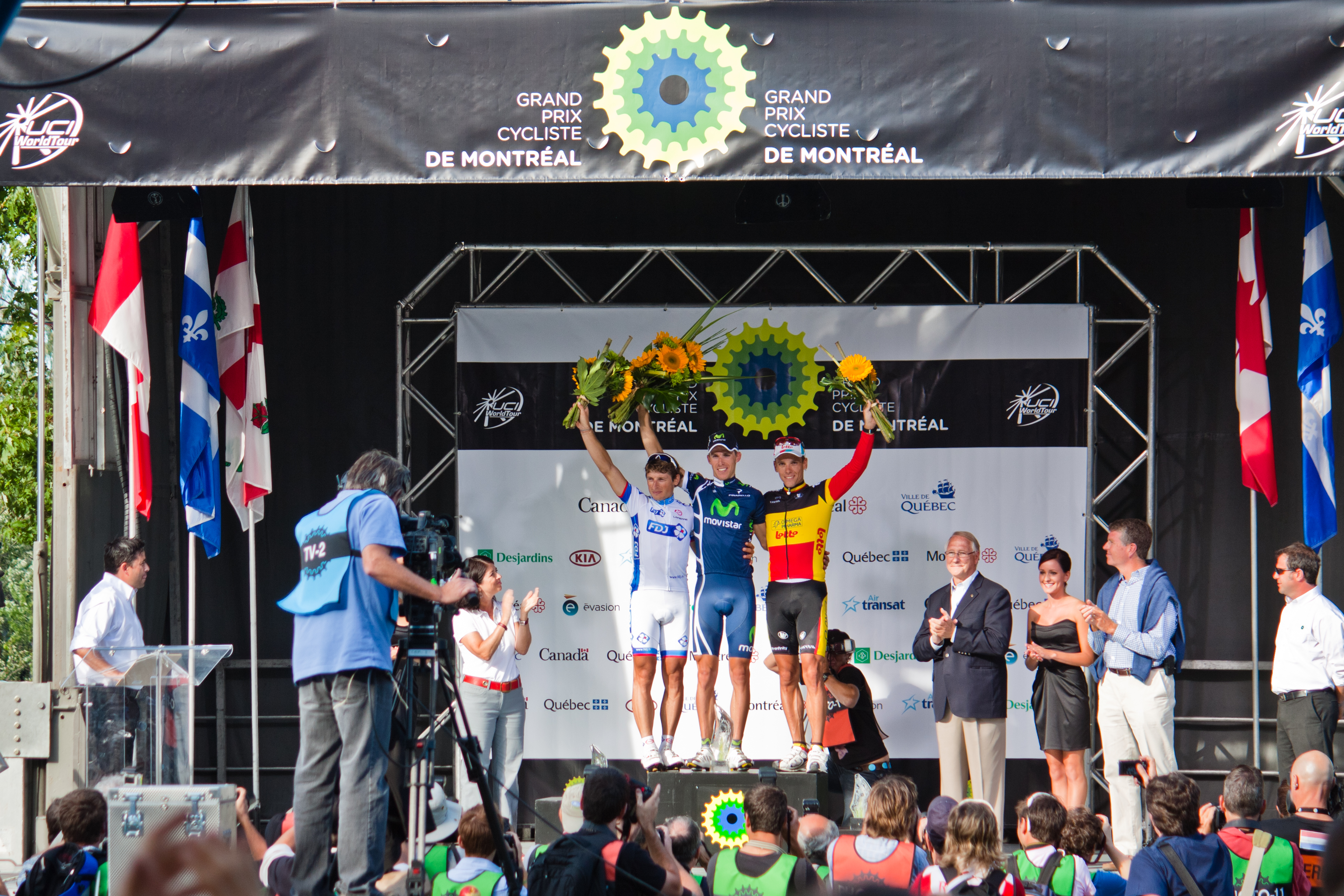 The podium, in the center is the winner, Rui Alberto Fario Da Costa of Portugal, on the right is 2nd place Pierrick Fedrigo of France and 3rd place Philippe Gilbert on the left, in the Belgian colors. Grand Prix Cycliste de Montréal, GPCQM, 2011.